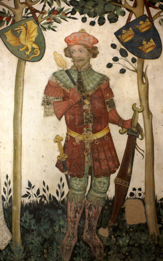 Manfred IV of Saluzzo as Judas Macabheus